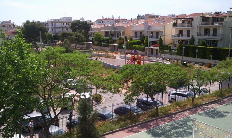 panoramiki